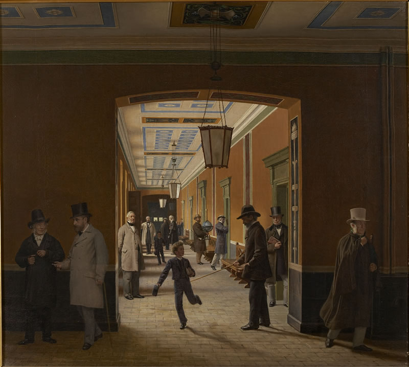 Stengangen på Sorø Akademi (The stone hallway at Sorø Academy) an oil painting by Christian Dalgaard who was an art teacher at the Sorø Academy from 1861 to 1891. 54,3 x 61 cm; 70,1 x 76,6 cm